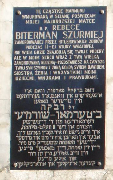 Commemorative plaque on the wall of Jewish cemetery in Warsaw